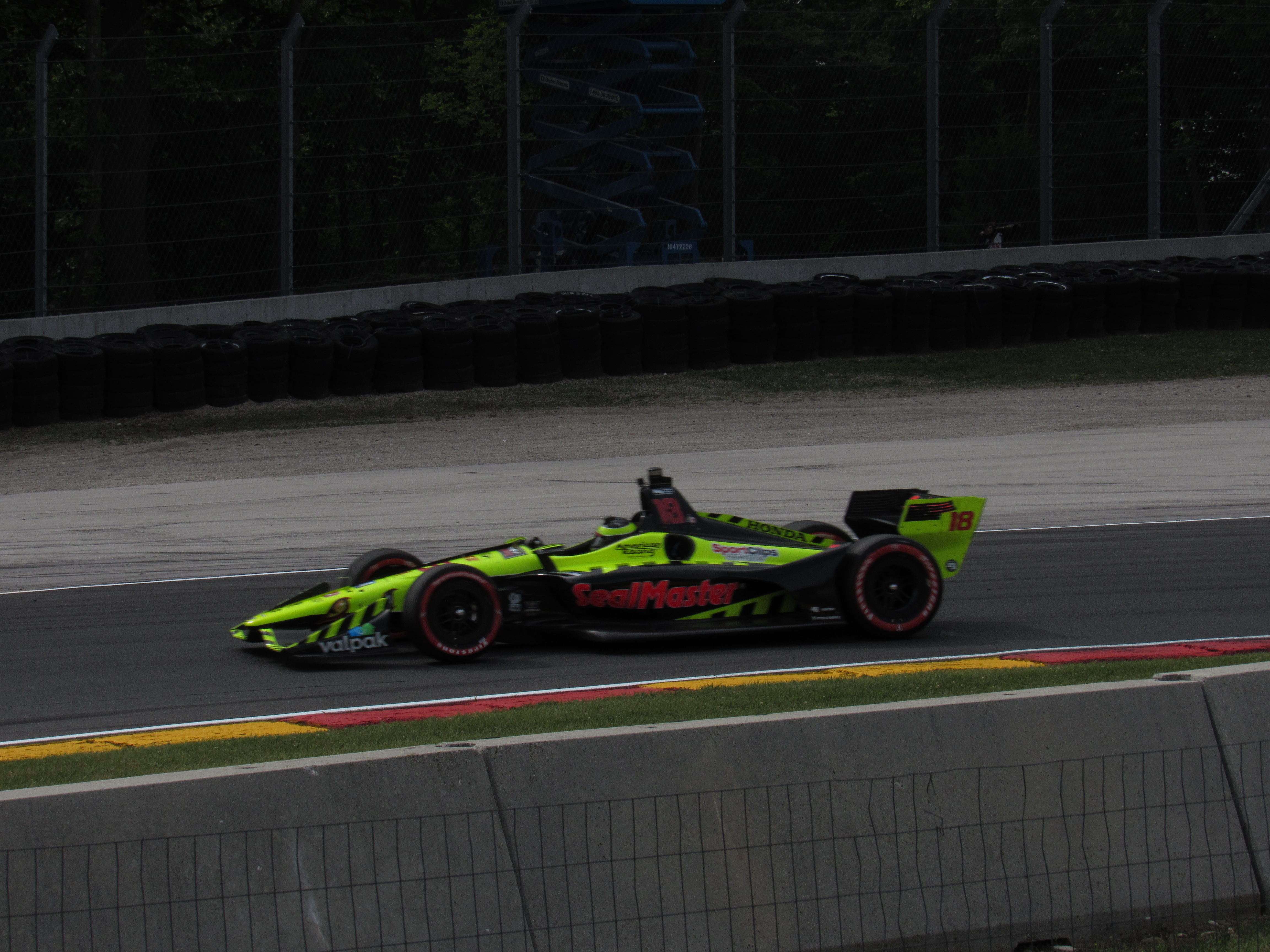 Sebastien Bourdais drives his IndyCar around Road America in 2018